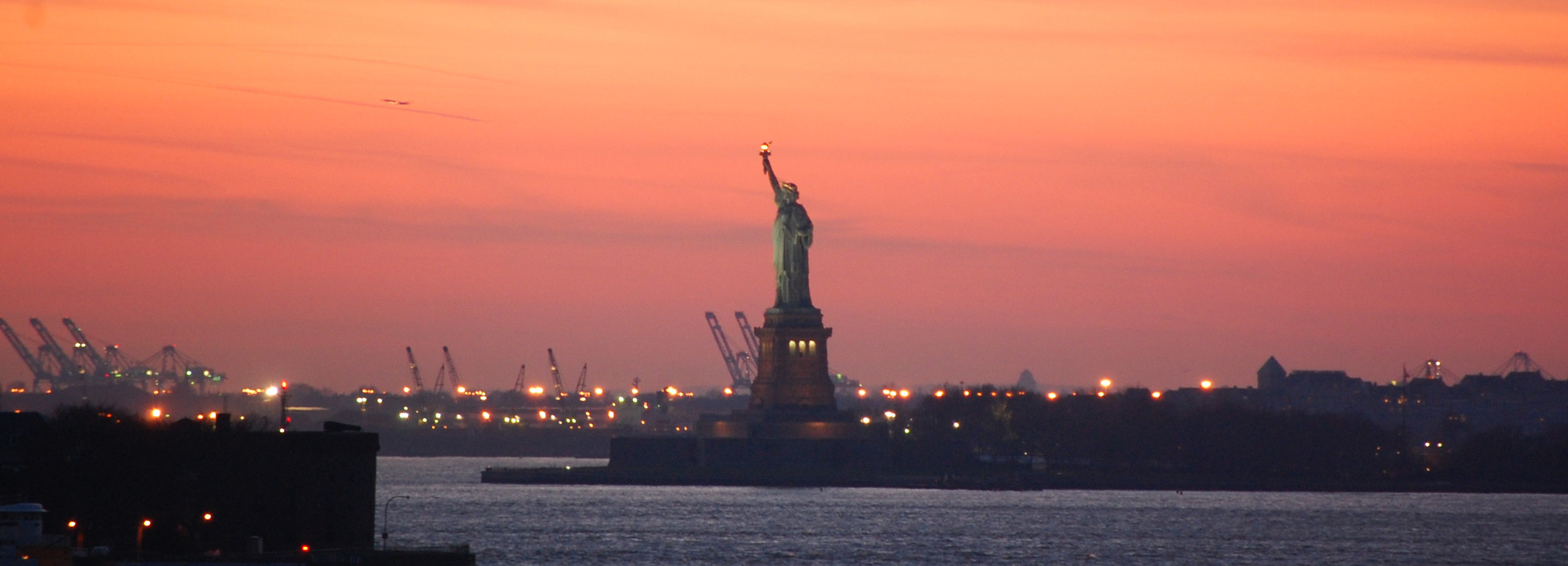 Statue of liberty, at sunset